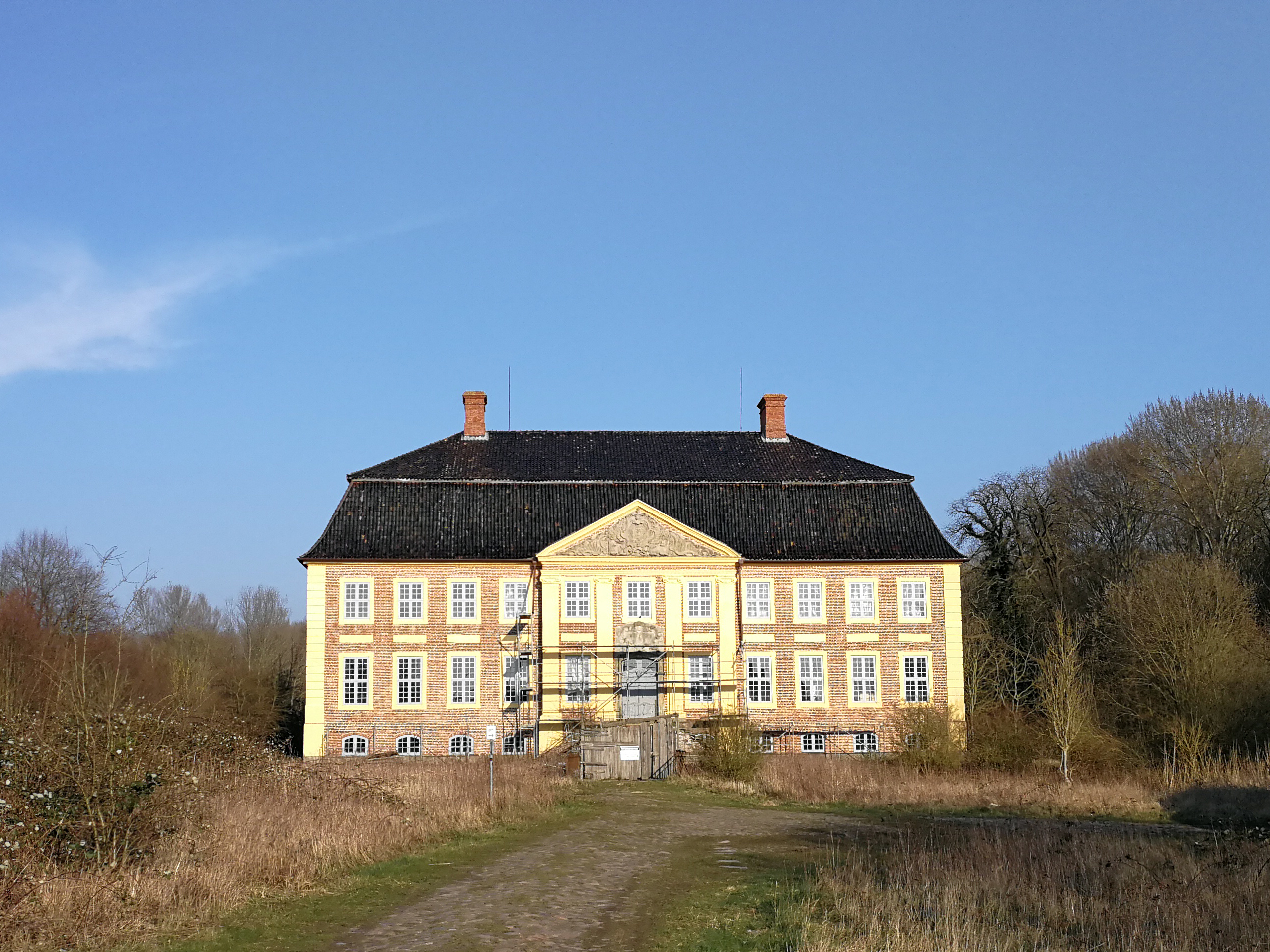 Castle Johannstorf, Front, March 2020